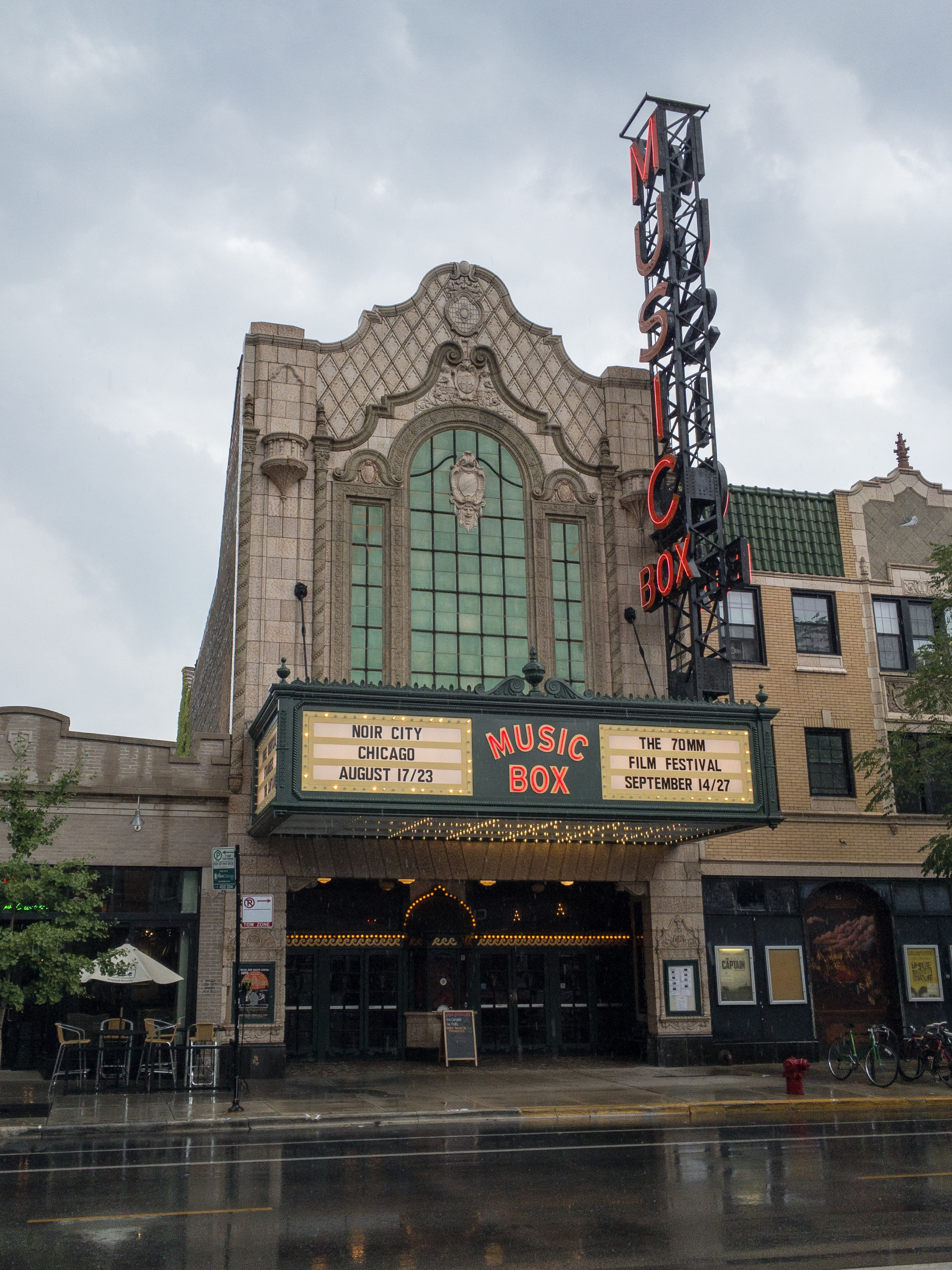 Music Box Theatre, Chicago, August 2018. Bottom half of marquee recently replaced.